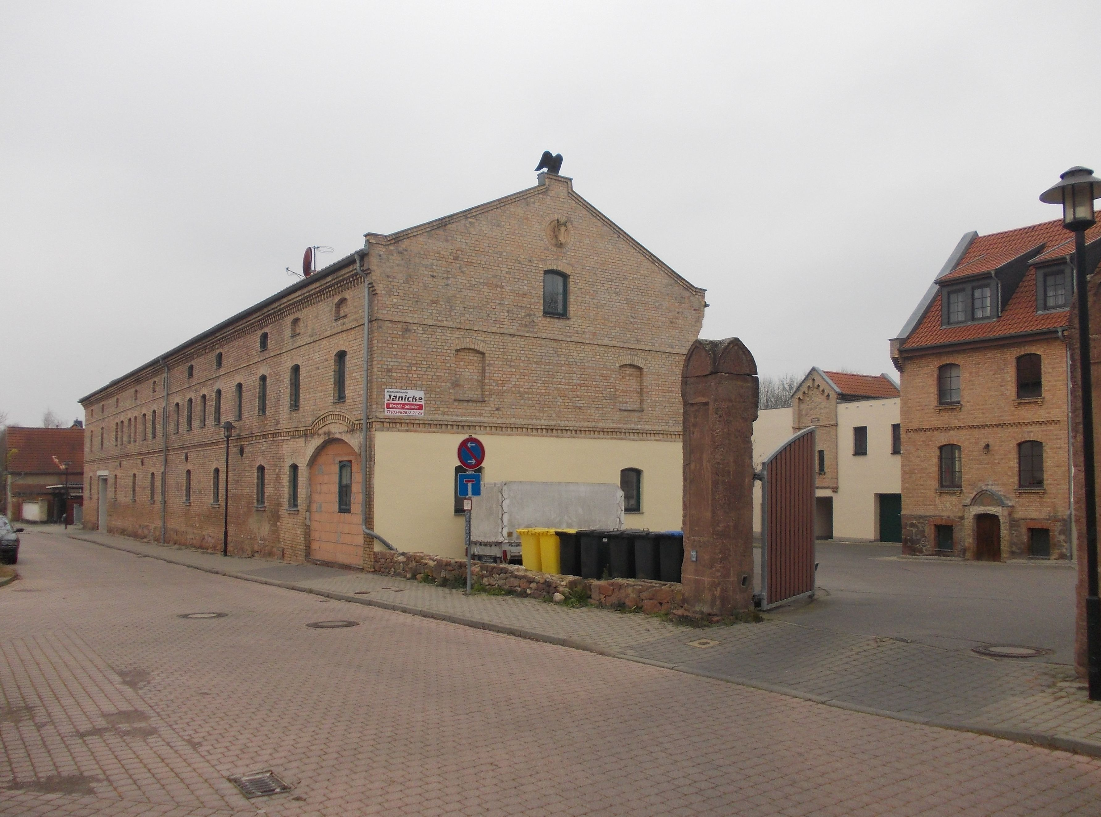 At the Döckritzanger in Döckritz, a part of Sennewitz (Petersberg, district: Saalekreis, Saxony-anhalt)